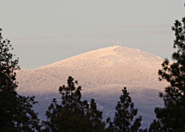 A closeup of the peak of Mount Spokane, as viewed from the southwest